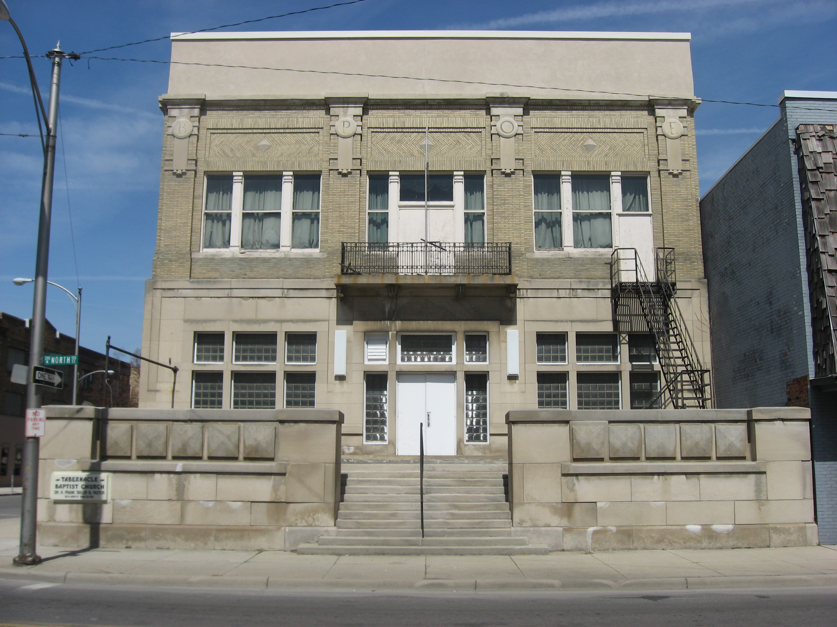 Front of the former Elks Lodge, located at 138 W. North Street in Lima, Ohio, United States. Built in 1909 and since bought by Tabernacle Baptist Church, it is listed on the National Register of Historic Places.